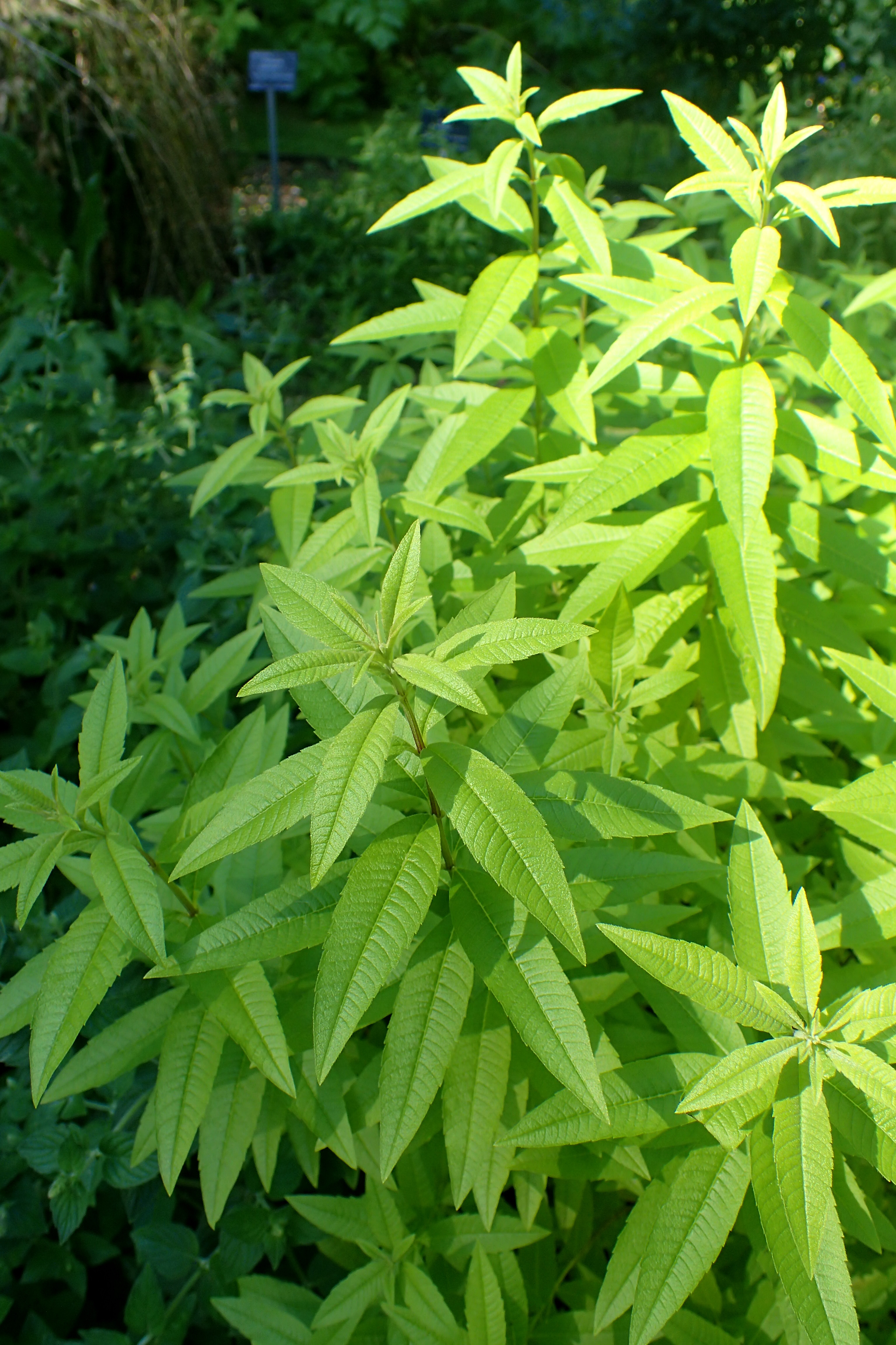 Aloysia citrodora in Warsaw University Botanical Garden